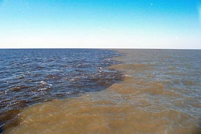 Photo of a dead zone with sediment from the Mississippi River carrying fertilizer to the Gulf of Mexico